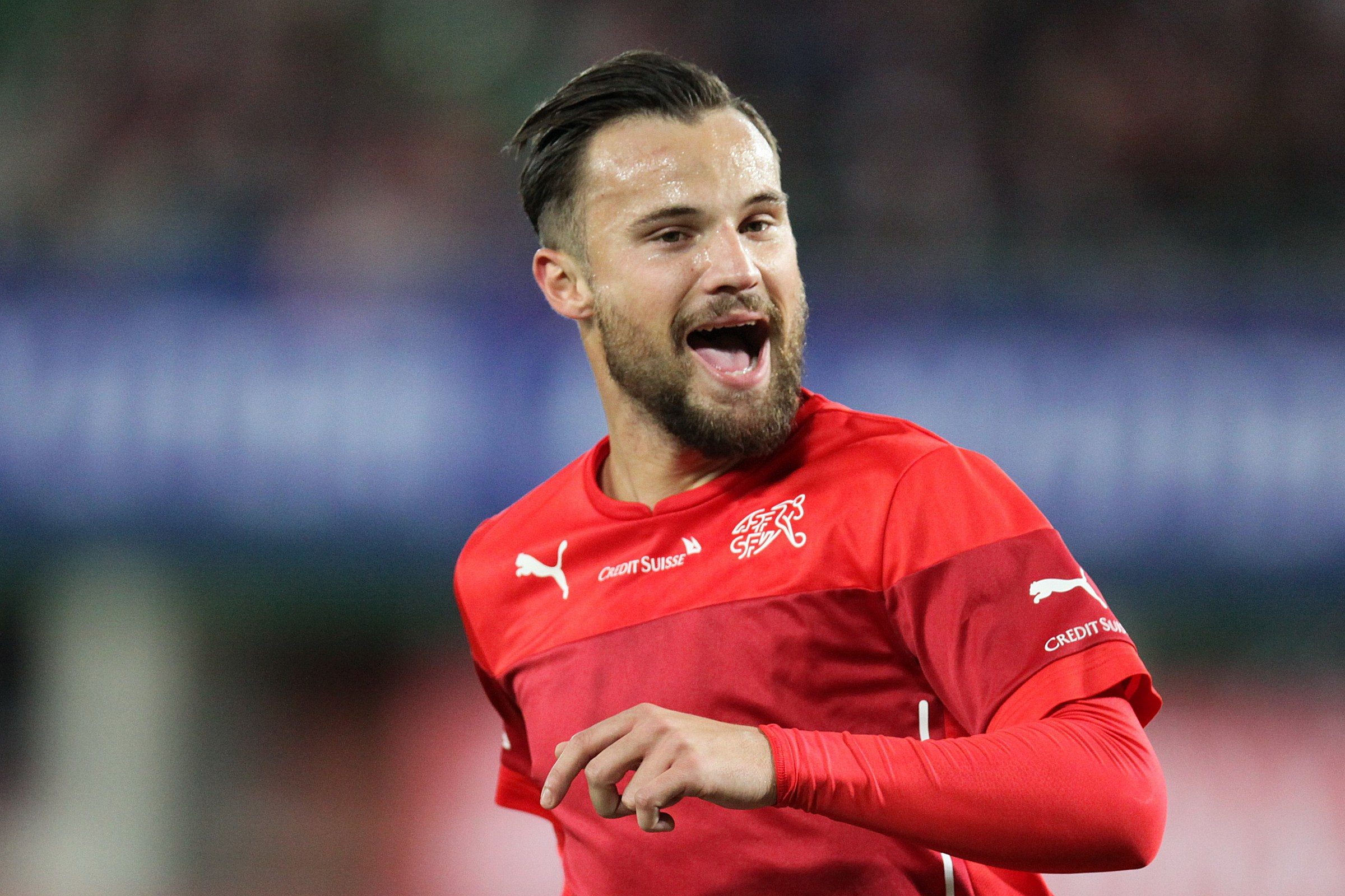 Friendly match – Austria (red shirts) vs. Switzerland (white shirts) 1-2 (1-2) – 2015-11-17 in Vienna, Ernst-Happel-Stadion – The photo shows Haris Seferović (Switzerland).